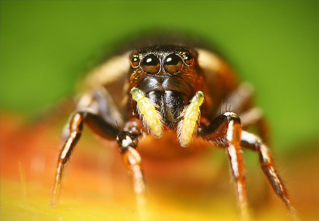 I captured this image a few days ago. I found this beautiful jumping spider in the wild field, which was full of insects and spiders. These photos were just an experiment of my new flash setup without diffuser. I took this photo with CanonEOS40D photocamera + extention tubes + CanonEF100mmMacroUSM lens + Kenko close up filter. This is almost full frame and not stacked photo... Please have a view of full size... Thanks :)